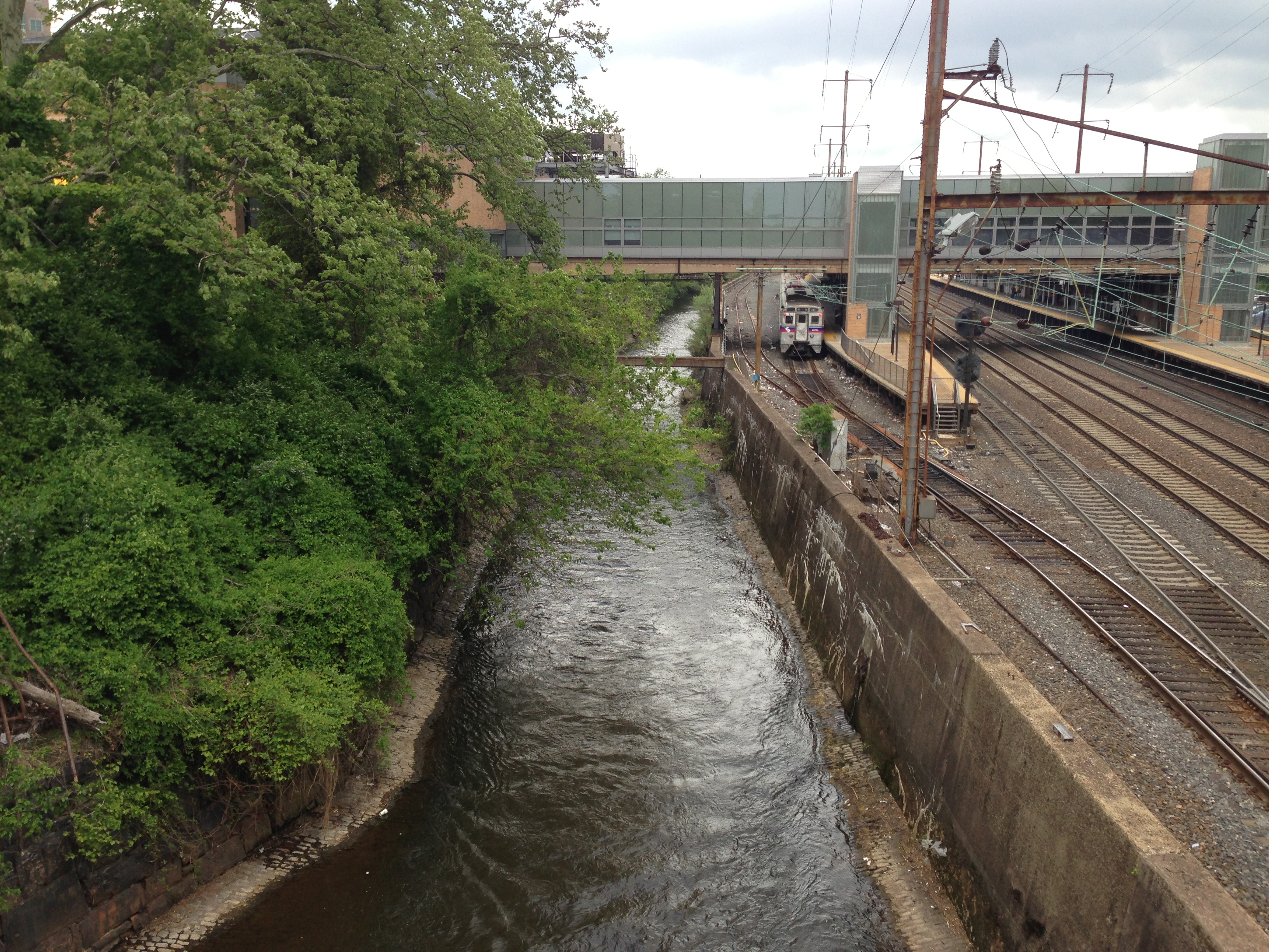 View up the Assunpink Creek from Clinton Avenue in Trenton, New Jersey